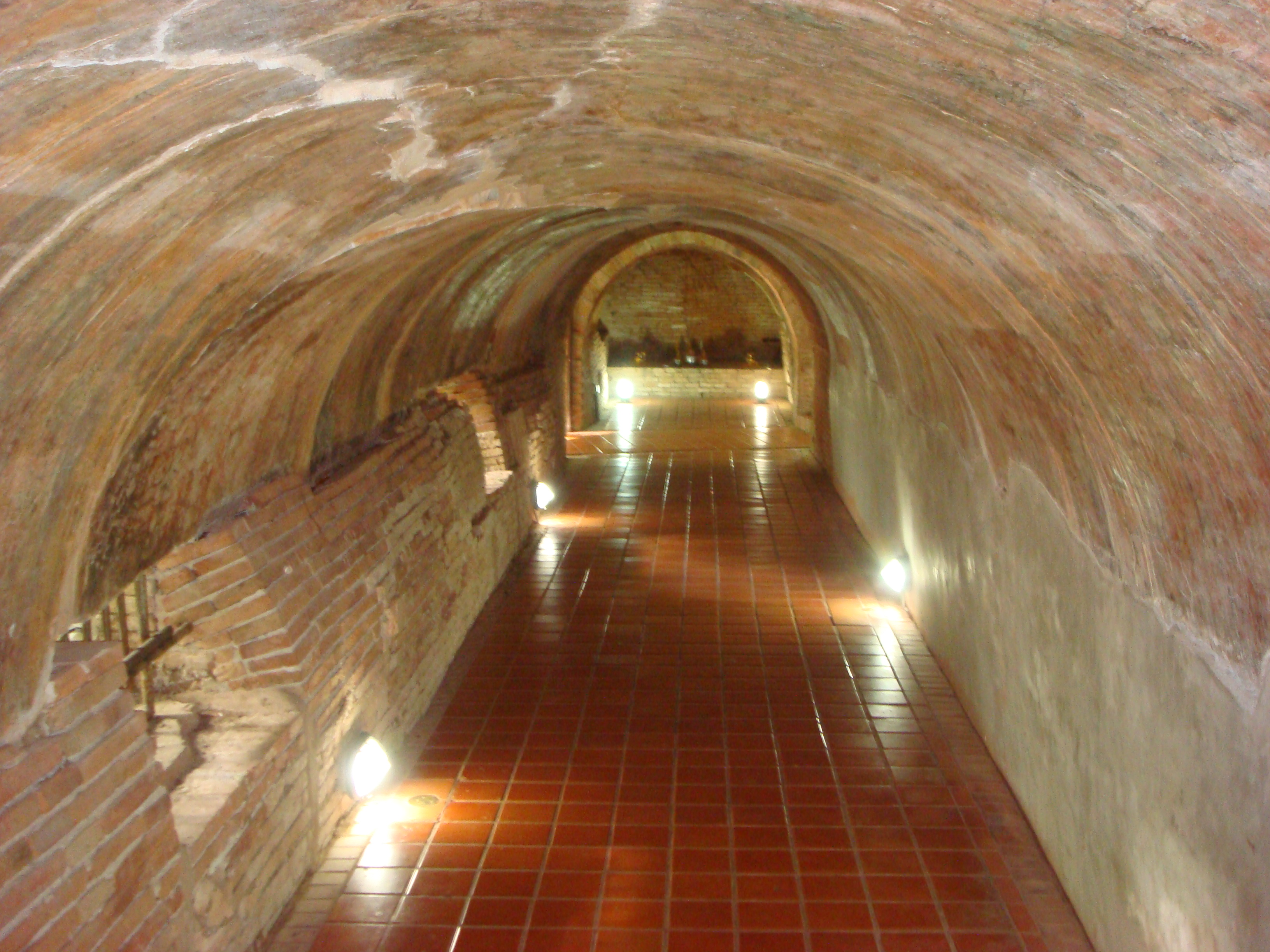 Wat Umong, Chiang Mai